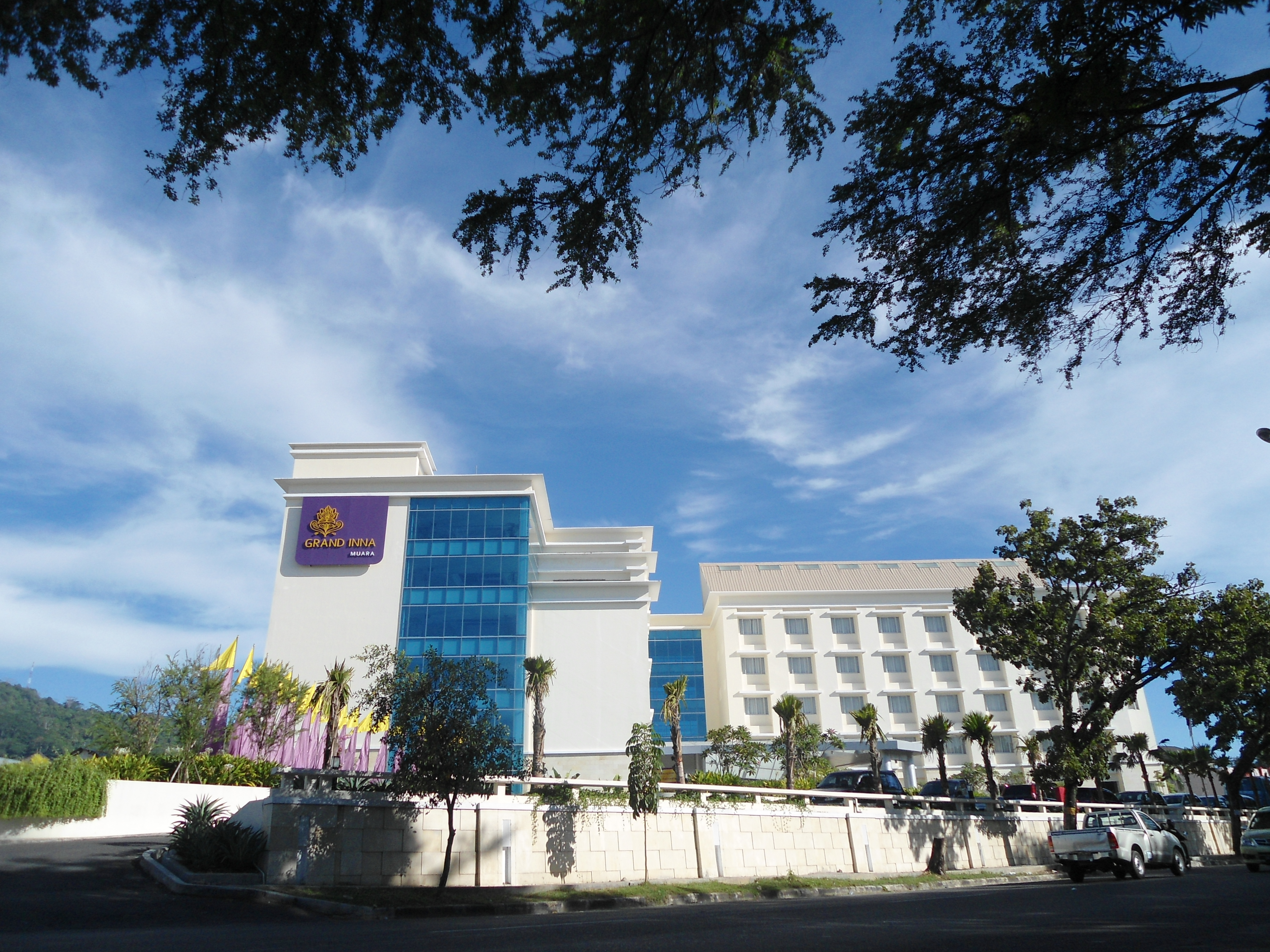 Hotel Grand Inna Muara, Padang